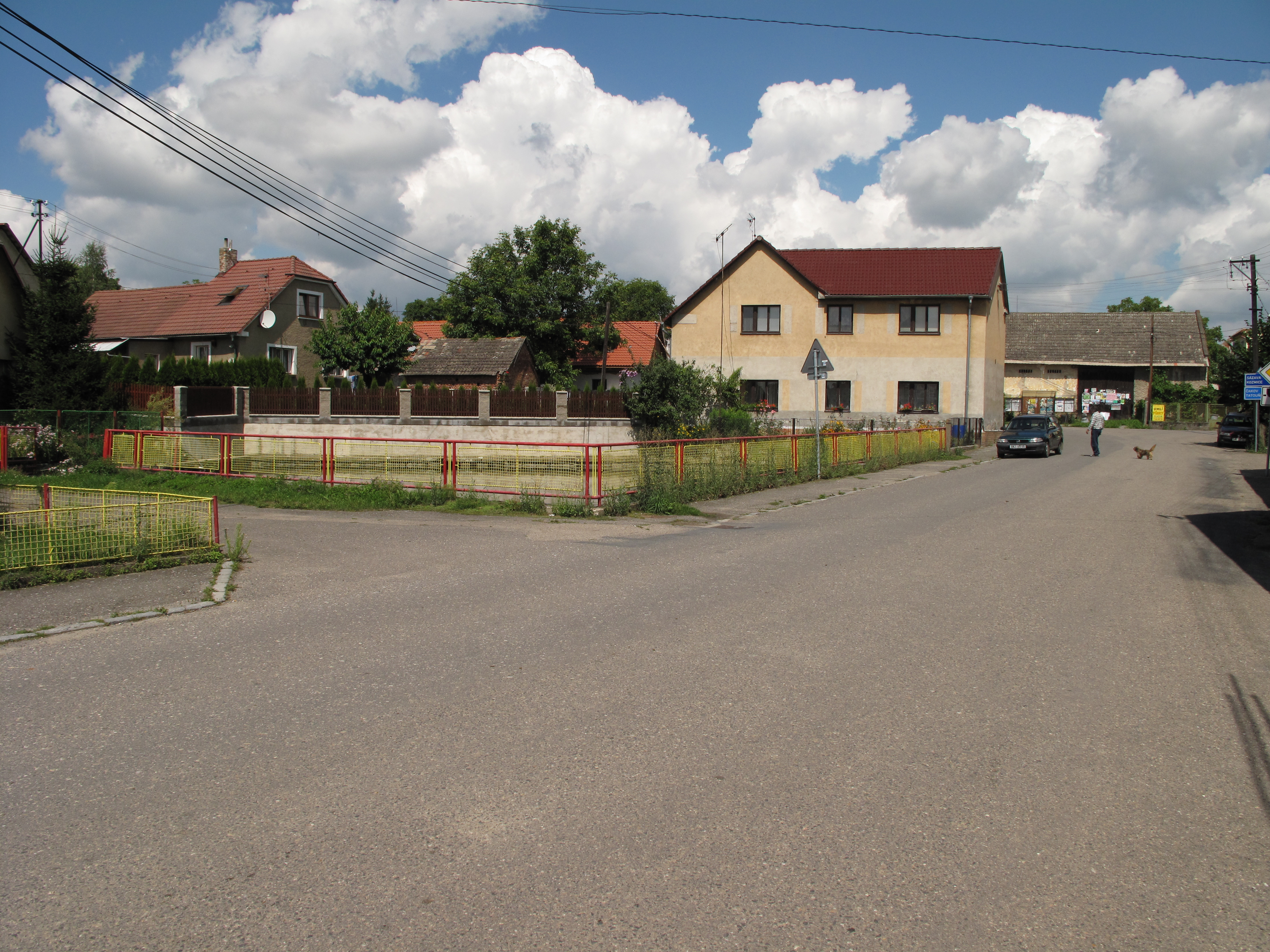 This photograph was taken within the scope of the second year of the 'Czech Municipalities Photographs' grant.